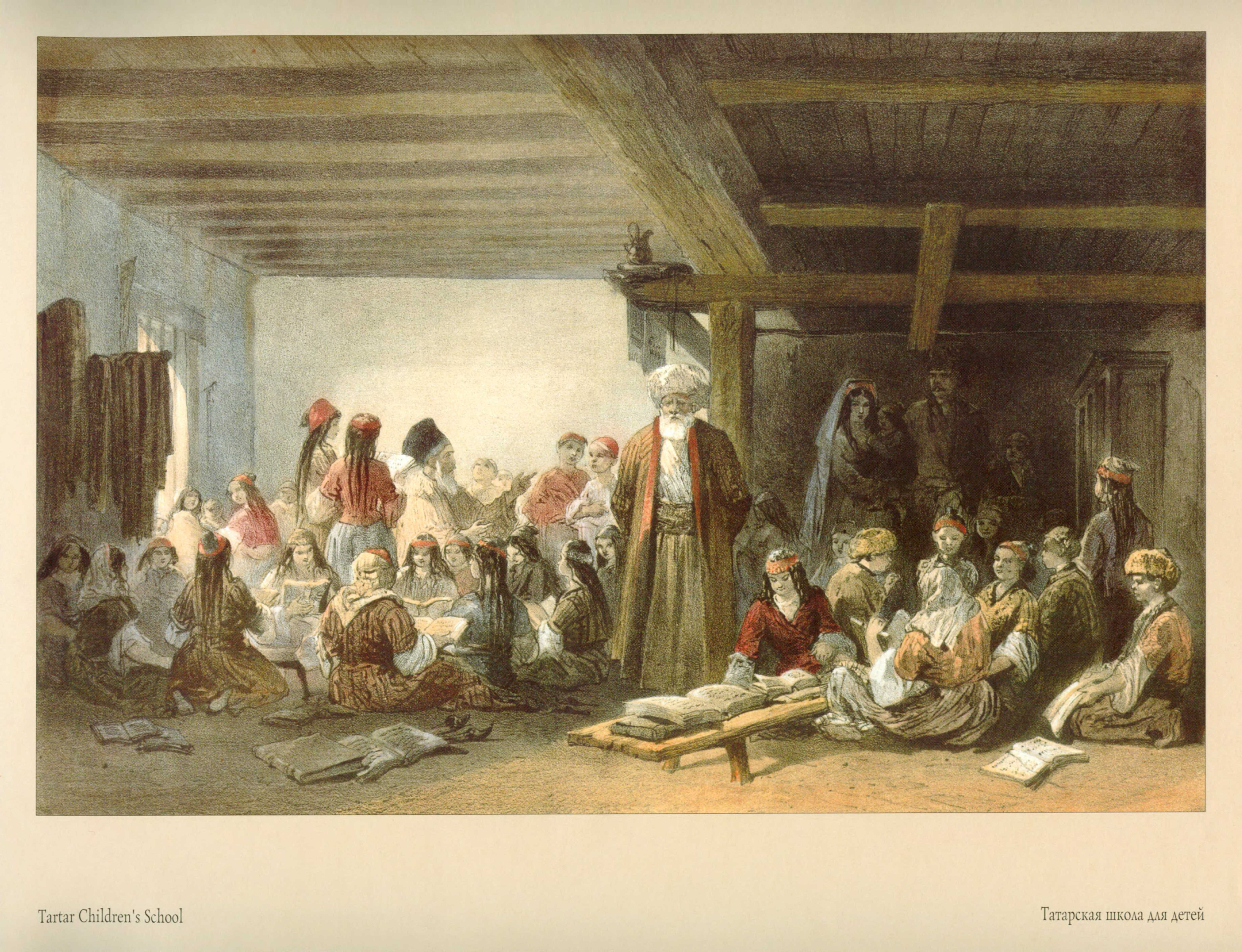 Carlo Bossoli. Tartar Children's school.